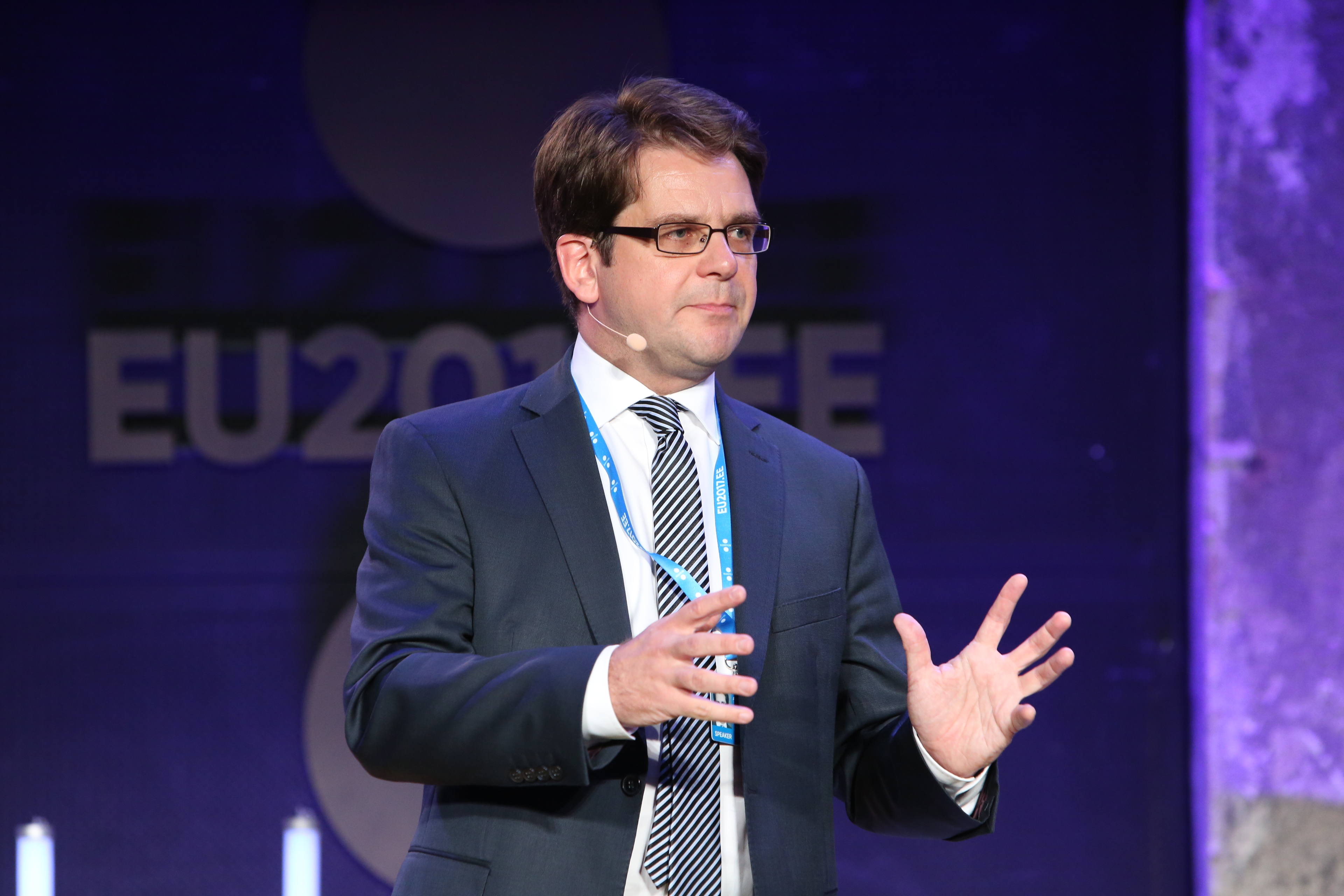 Thorben Albrecht, Permanent State Secretary at the Federal Ministry of Labour and Social Affairs of Germany Photo: Annika Haas (EU2017EE)